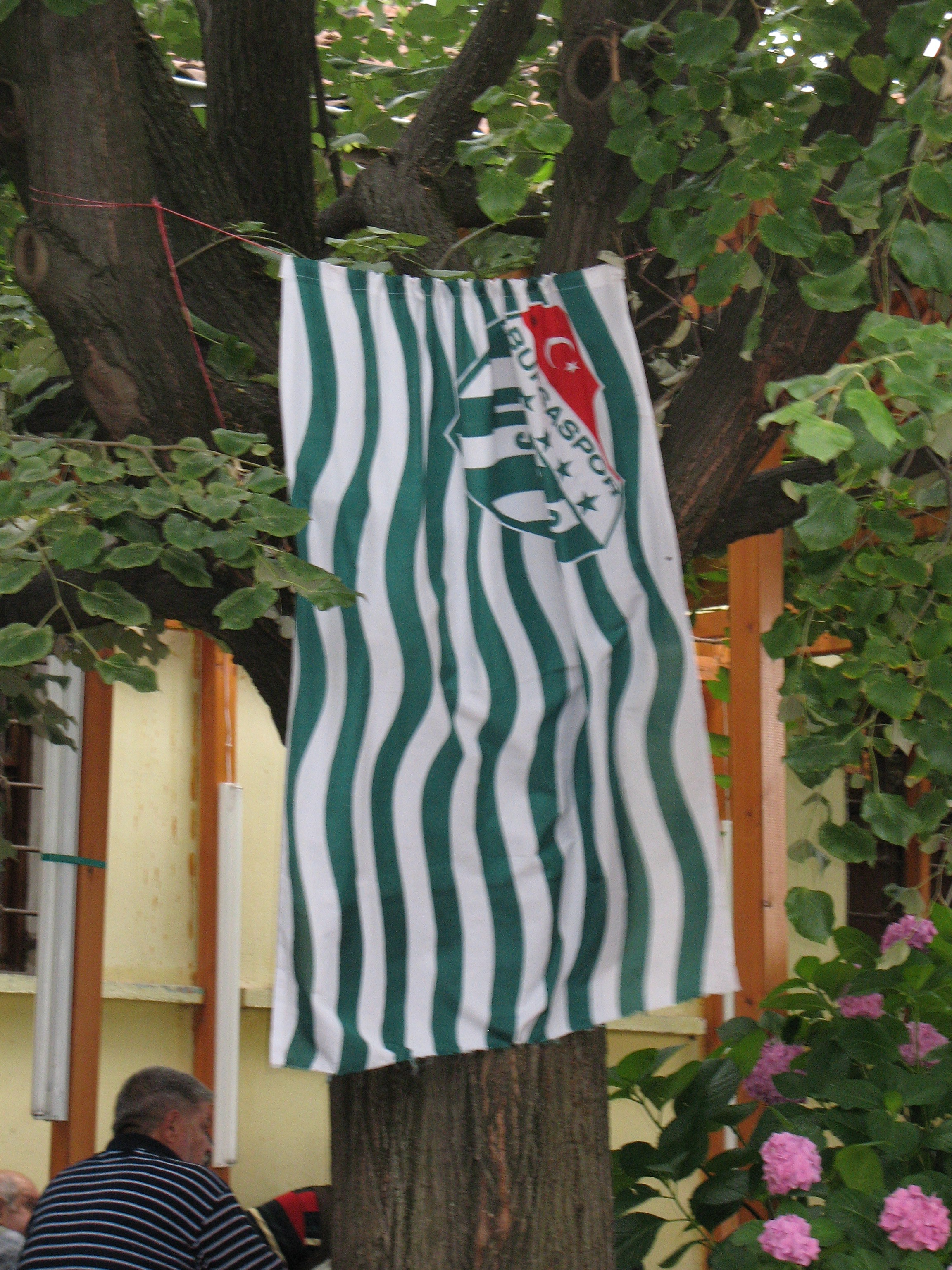 The flag of Bursaspor.